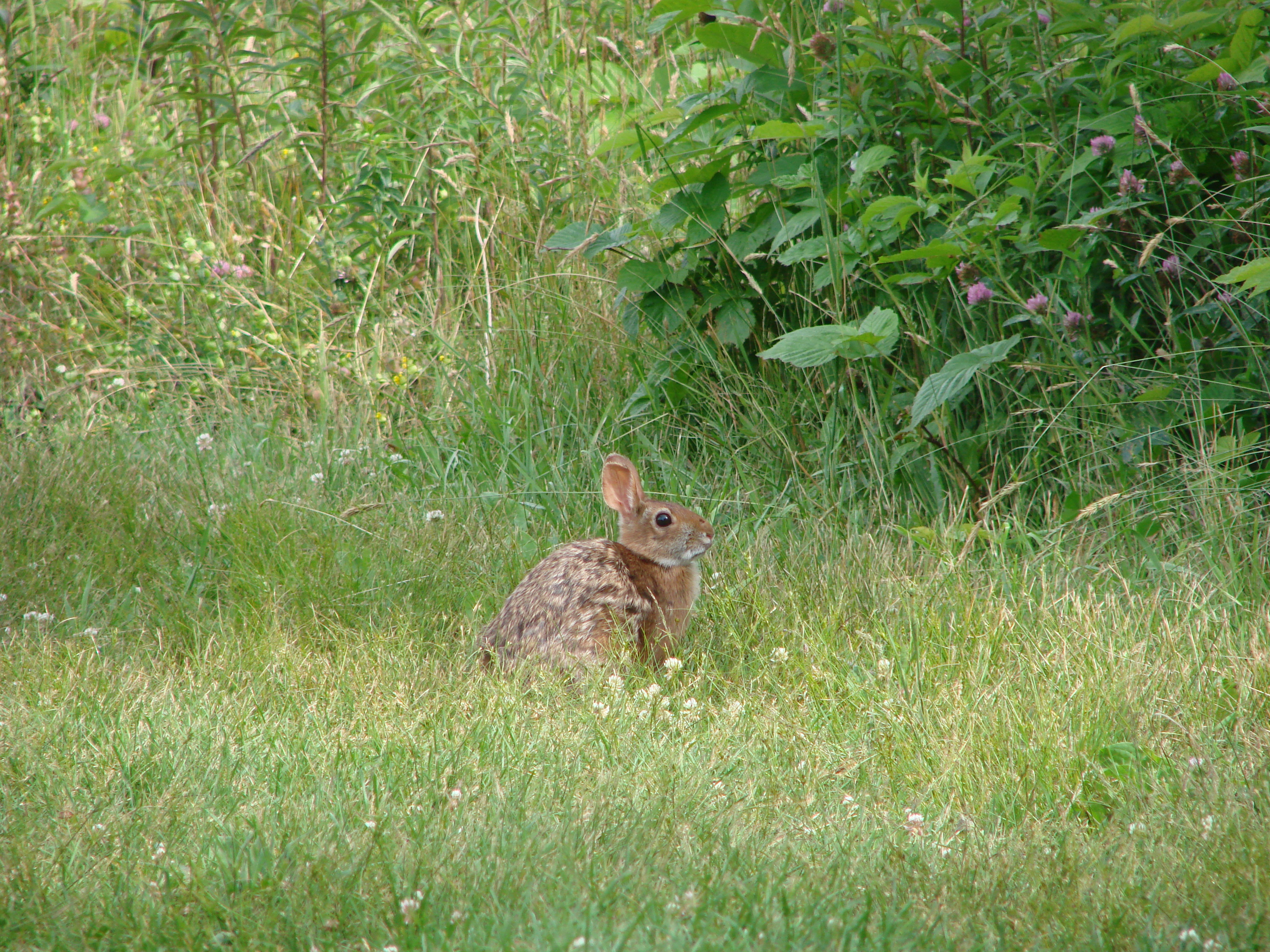 New England cottontail (Sylvilagus transitionalis) at Crescent Beach State Park in 2010.